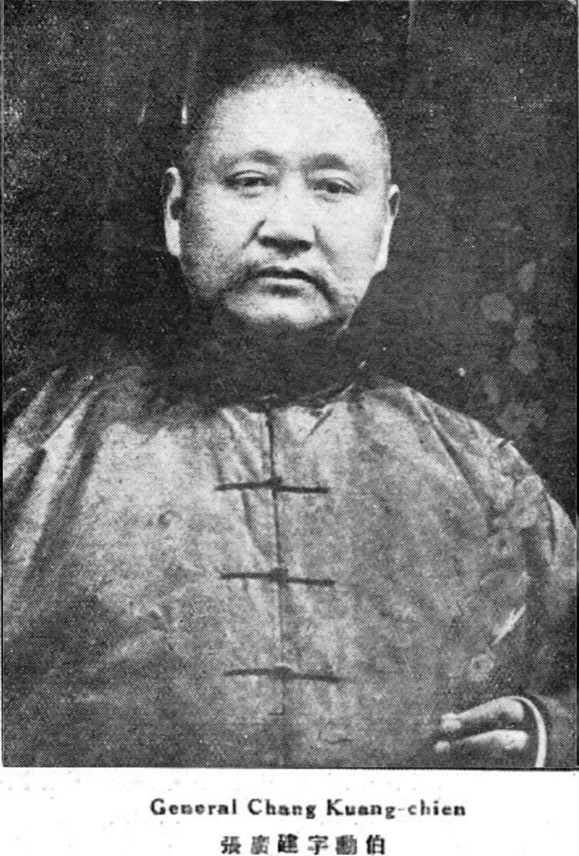 Zhang Guangjian, Xunbo (1867 - 1938)